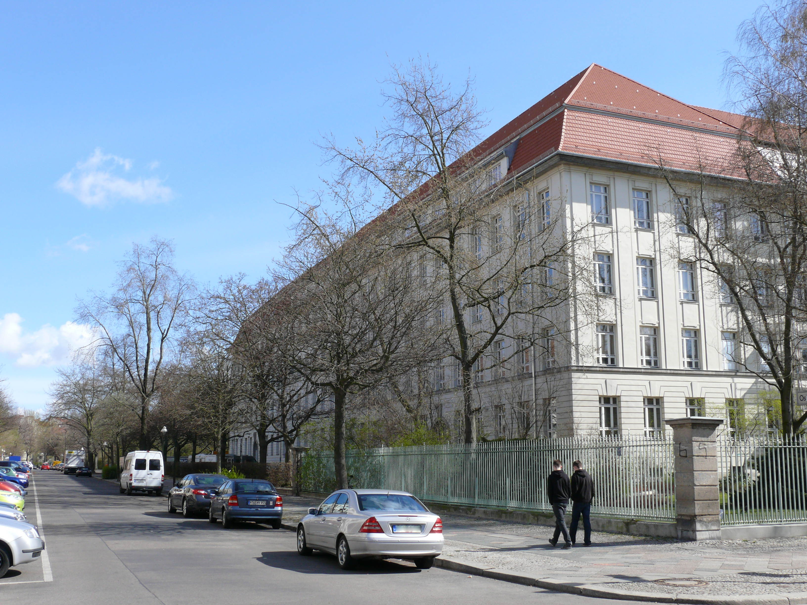 Wedding Ostender Straße Beuth